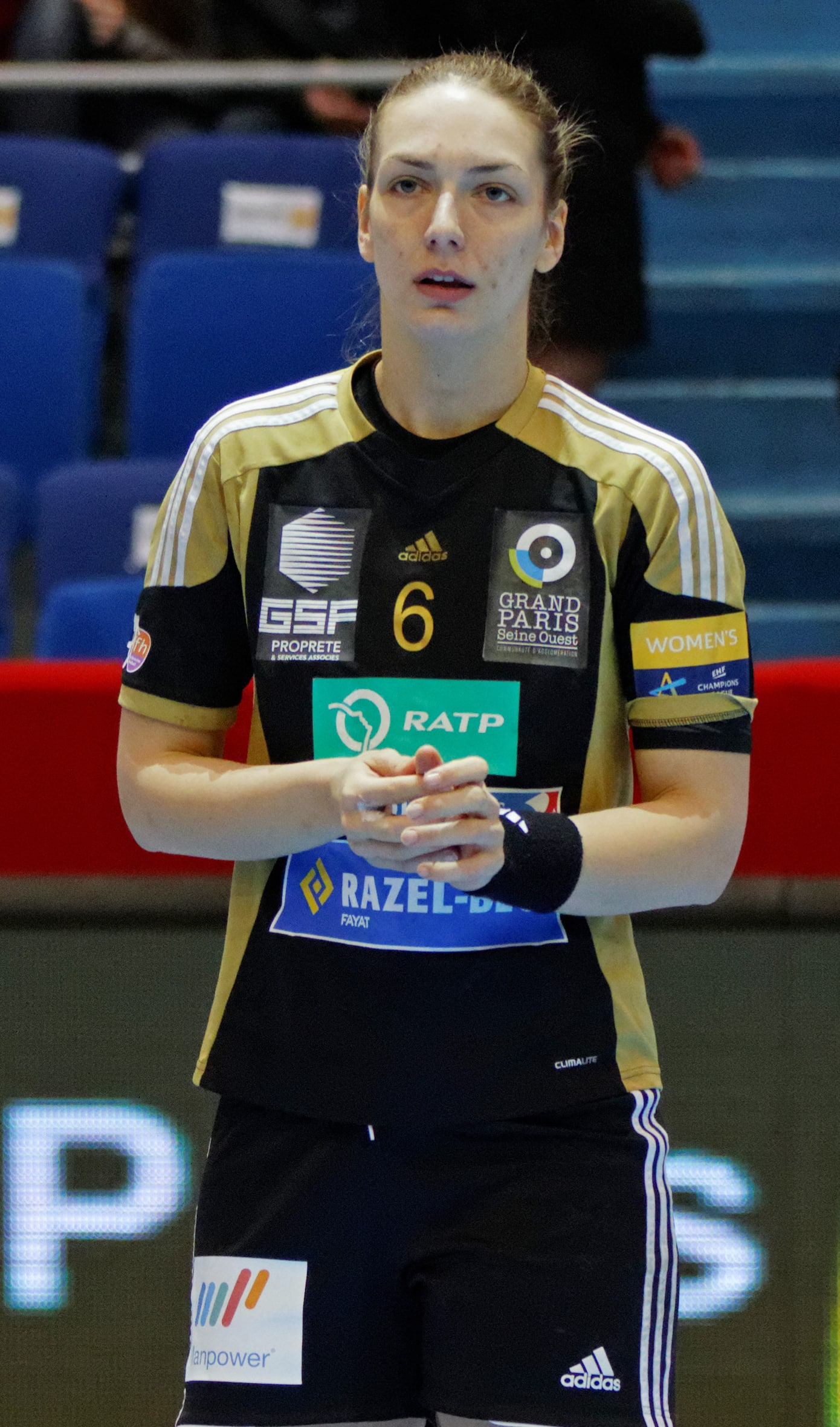 Final of the Women's handball French cup 2013. Handball Cercle Nîmes vs Issy Paris Hand, stadium Pierre-de-Coubertin at Paris.